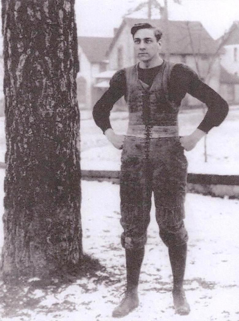 Image of Wesley Englehorn